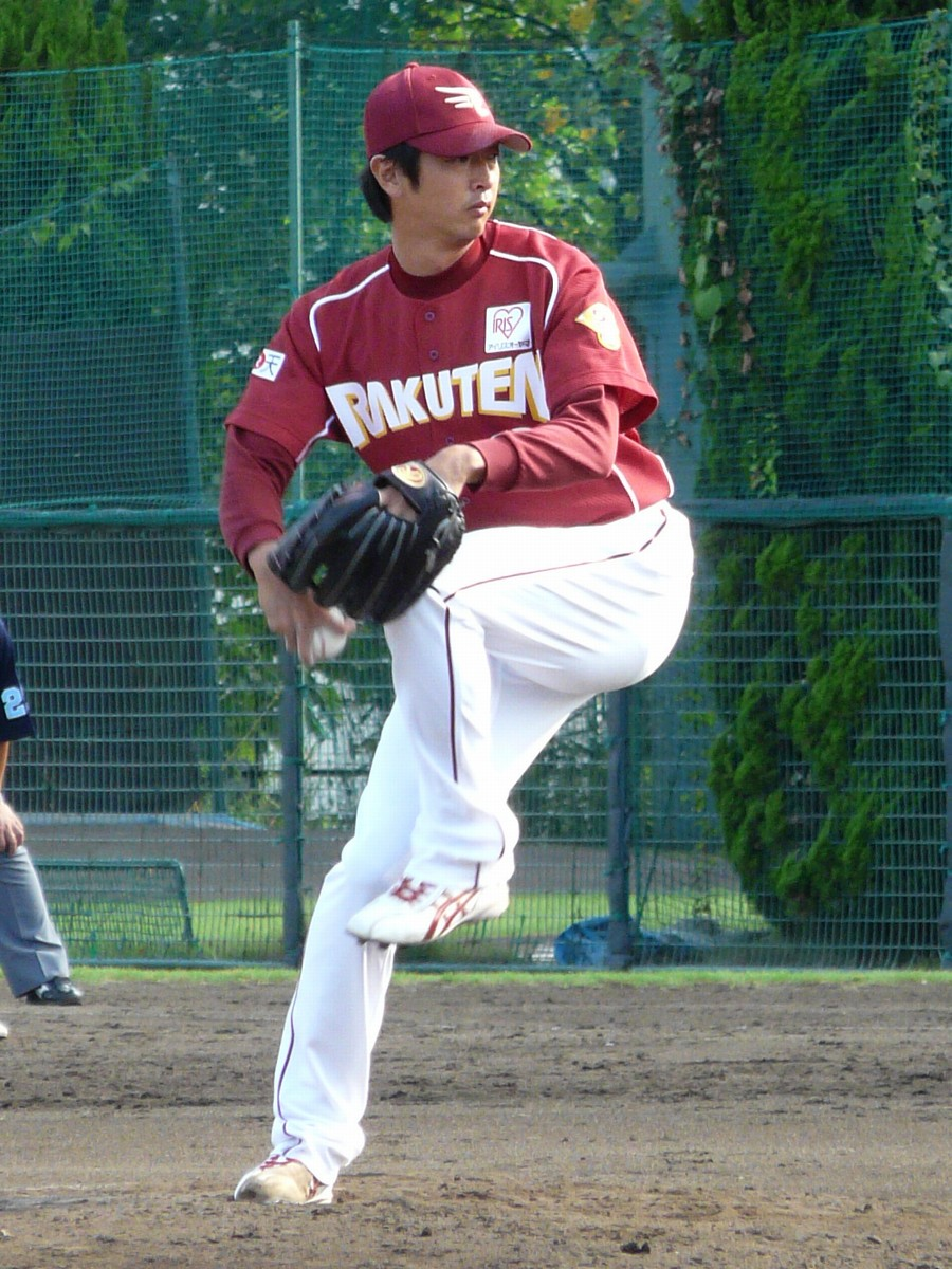 Akira-Matsumoto